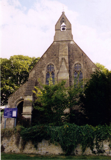 West end of the Church of England parish church of St Thomas, Watchfield, Oxfordshire (formerly Berkshire)